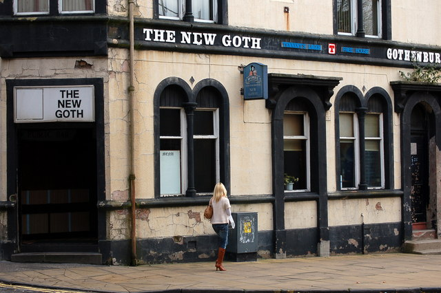 Cowdenbeath Public House Public house in Cowdenbeath High Street, formerly run by Gothenburg Public House Society